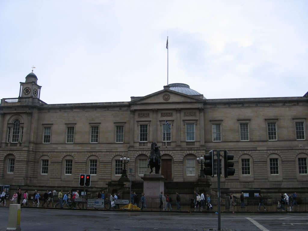 National Archives of Scotland